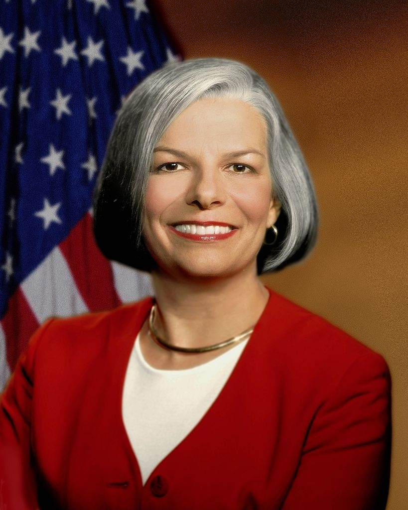 Julie Gerberding, M.D., M.P.H. (born August 22, 1955), is an American infectious disease expert and the former director of the U.S. Centers for Disease Control and Prevention (CDC) and administrator of the Agency for Toxic Substances and Disease Registry (ATSDR).